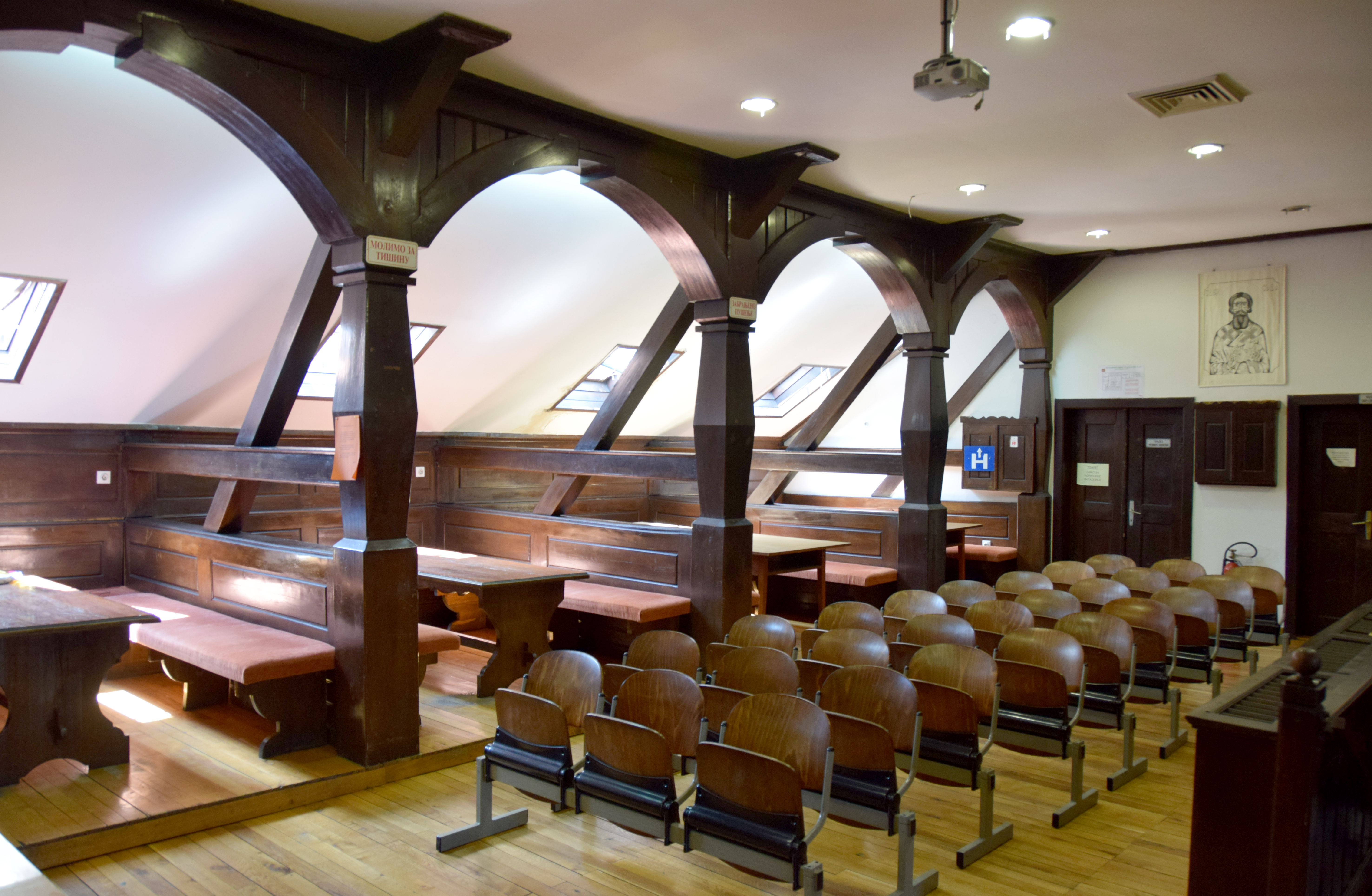 "Sveti Sava" library in Zemun (Belgrade, Serbia) - Reading room and Conference room equipped with an authentic look from the beginning of the 20th century